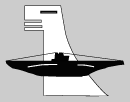 Emblem of 6th U-boat flotillia of Kriegsmarine